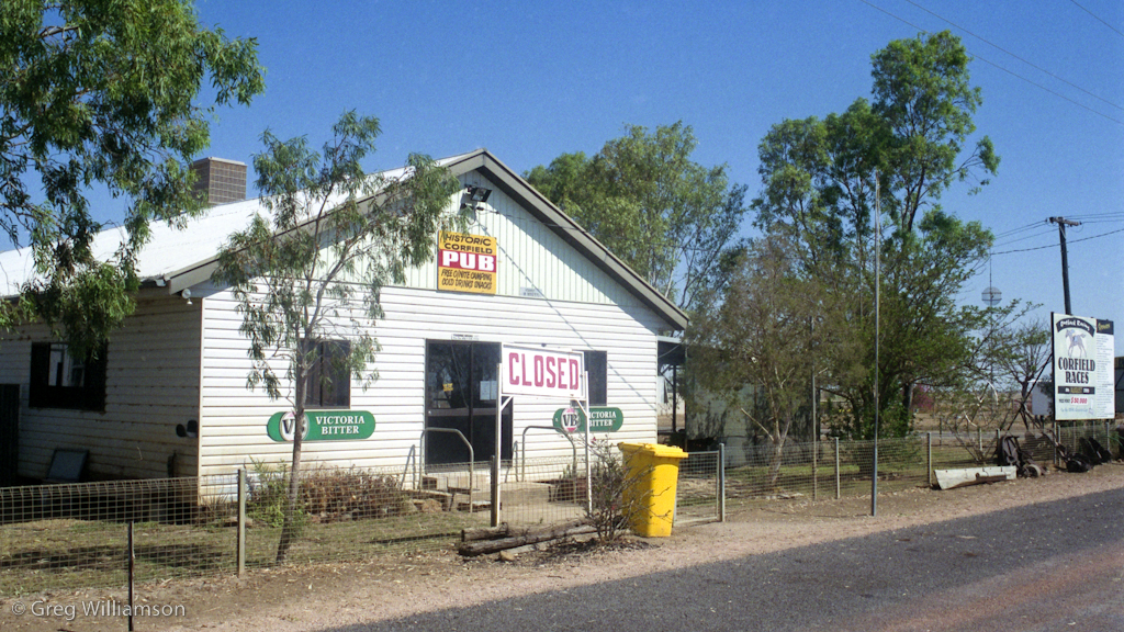 Pub with no beer. On the road between Hughenden and Winton. See where this picture was taken. [?]